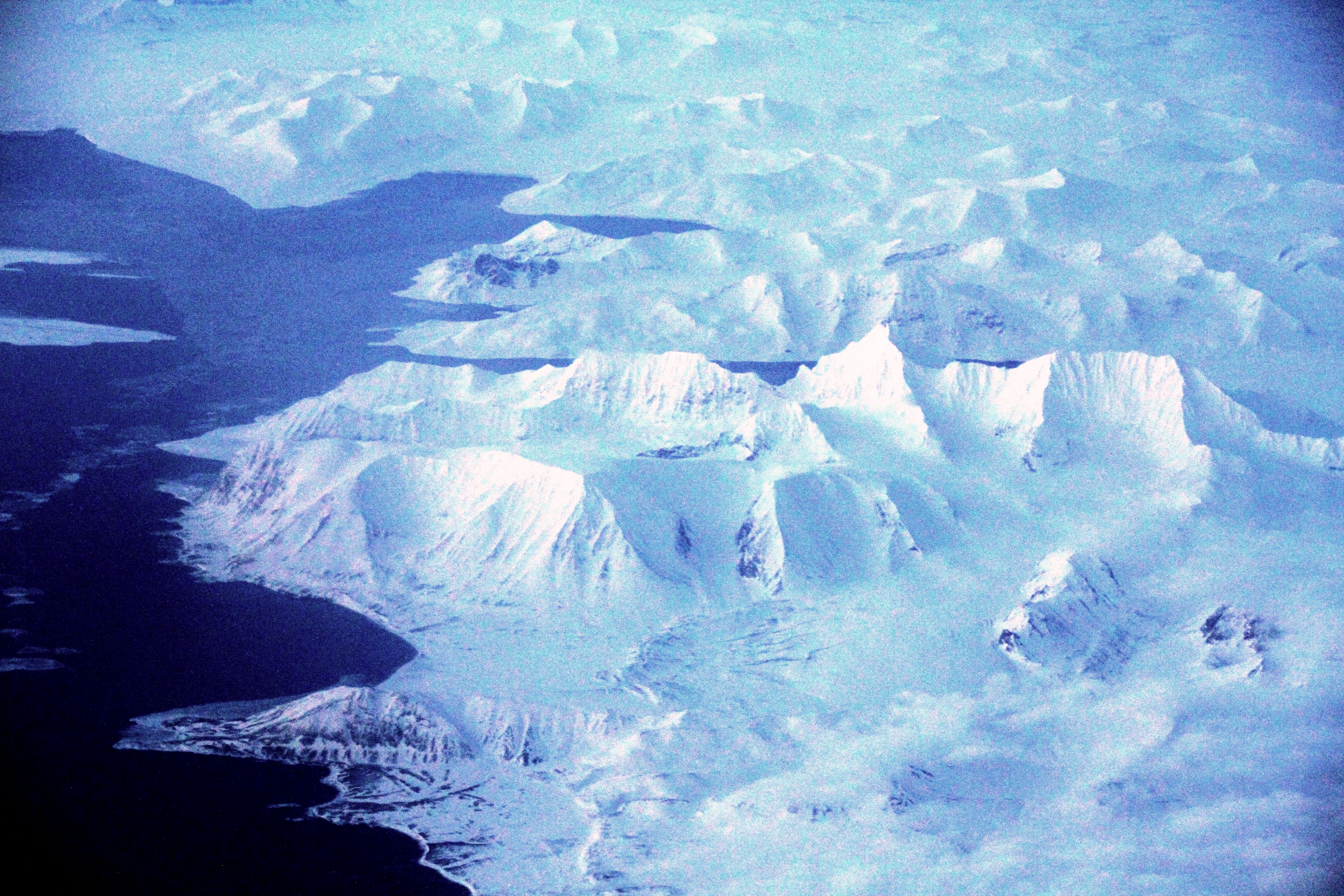 Southernmost part of Spitsbergen, Norway